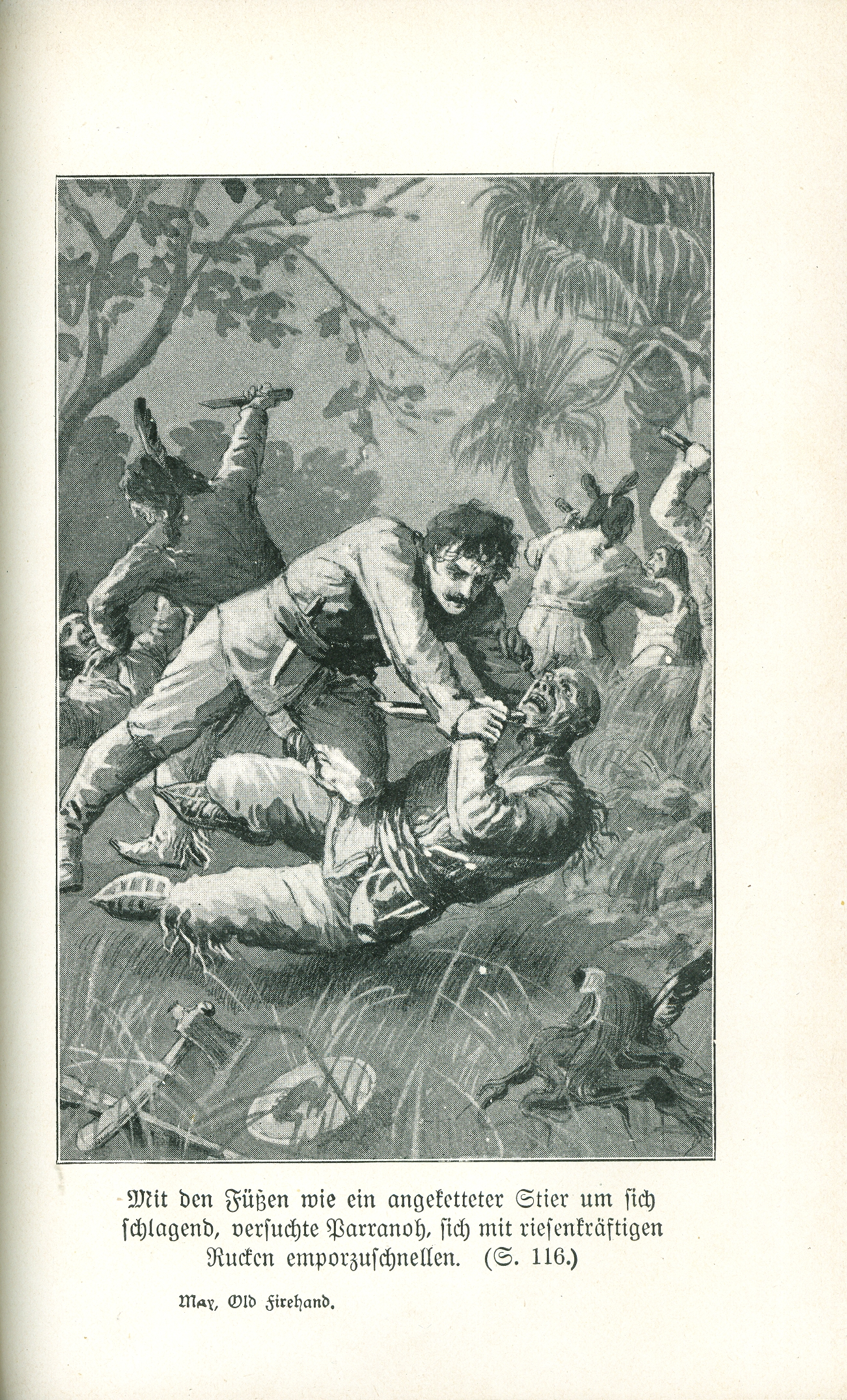 Old Firehand